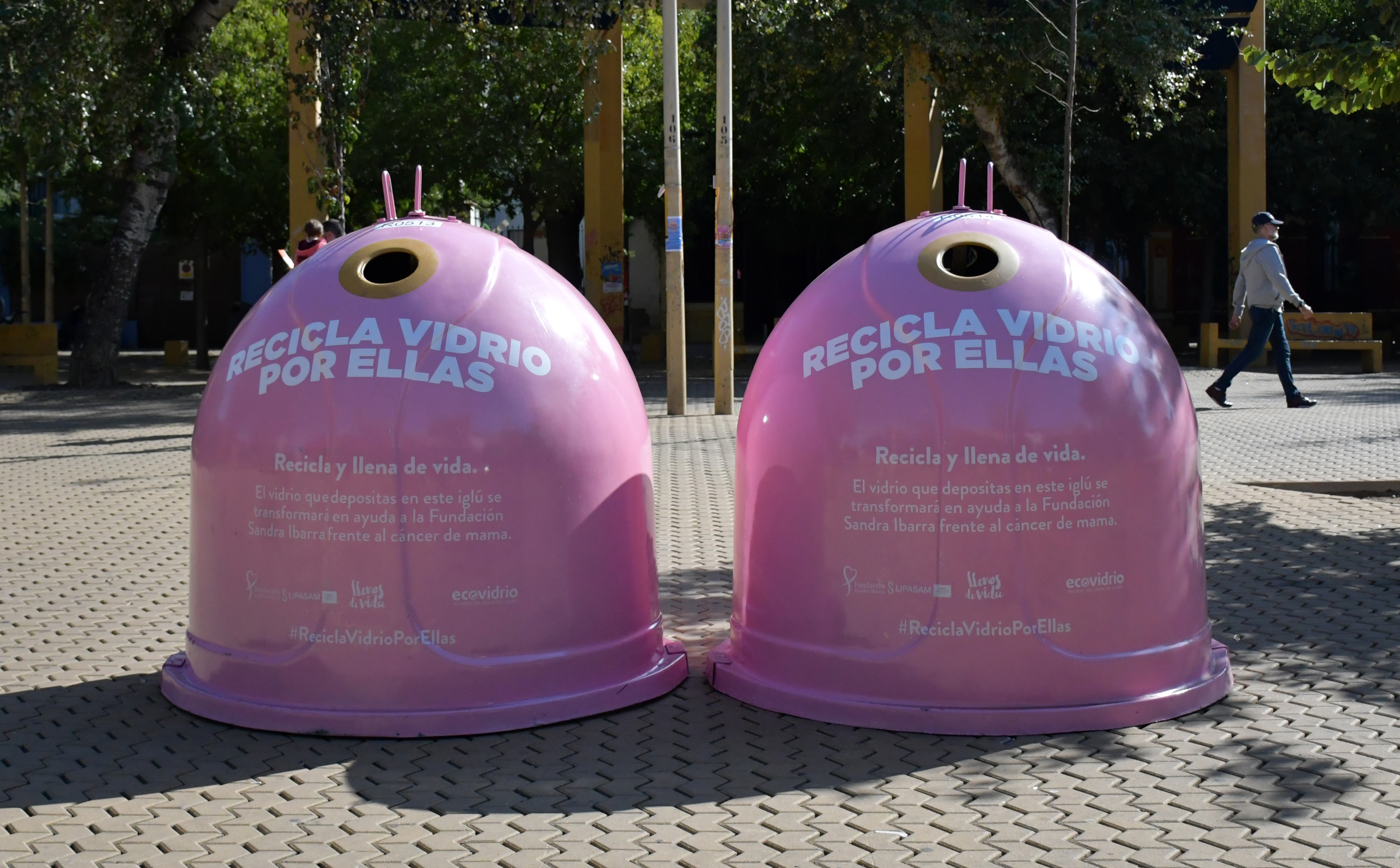 Glass containers representing a woman's breast, during Breast Cancer Awareness Month 2019 in Seville (Spain).